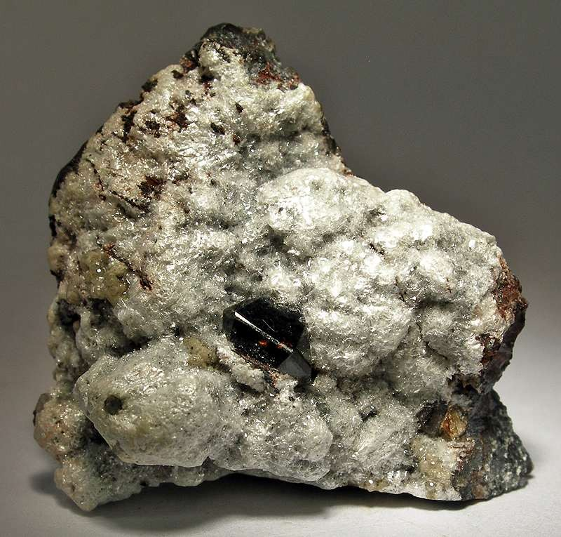 Kegelite, Siderite Locality: Tsumeb Mine (Tsumcorp Mine), Tsumeb, Otjikoto (Oshikoto) Region, Namibia (Locality at ) Size: 2.7 x 2.7 x 2.2 cm. This is a fine thumbnail specimen of kegelite. The somewhat gemmy brown-red crystal in the middle is a remarkably sharp and lustrous siderite. It’s a nice accent to the rolling carpet of extremely rich, microcrystalline kegelite. Ex. Walter Kahn and Eric Asselborn Collections.